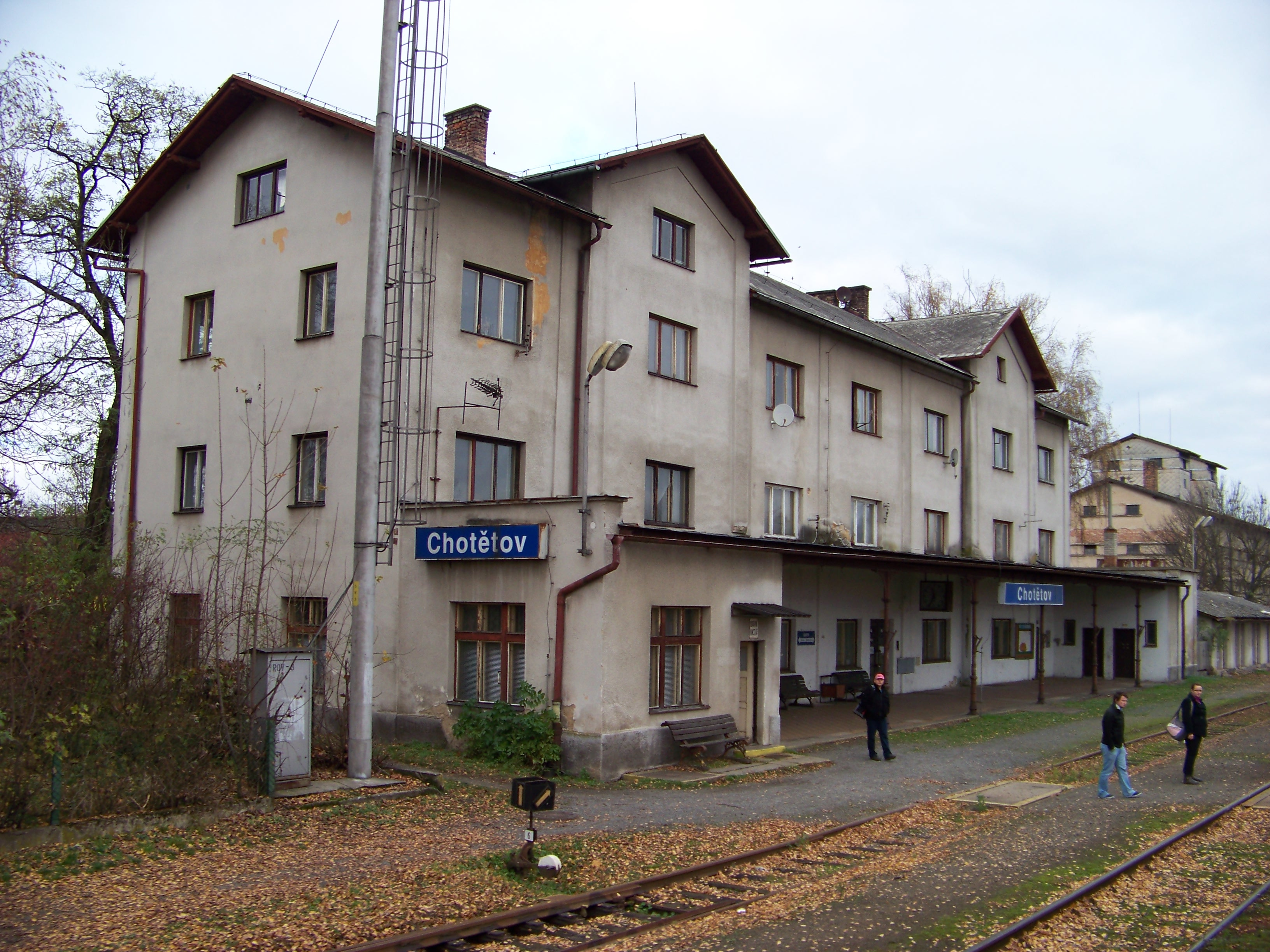 Chotětov, Mladá Boleslav District, Central Bohemian Region, Czech Republic. Train station Chotětov. - OpenStreetMap (Info)